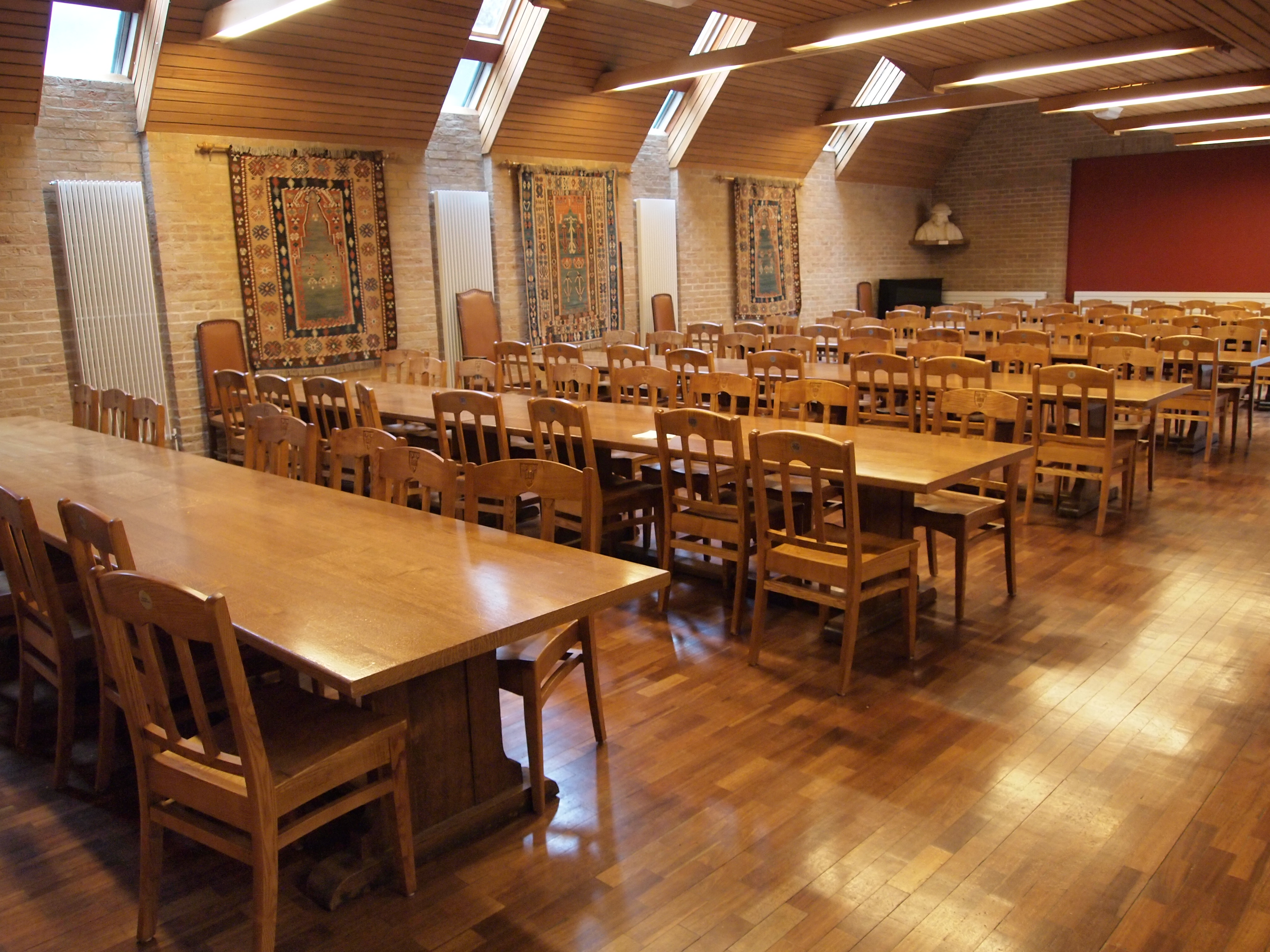 The dining hall of Linacre College, photographed in February 2012.